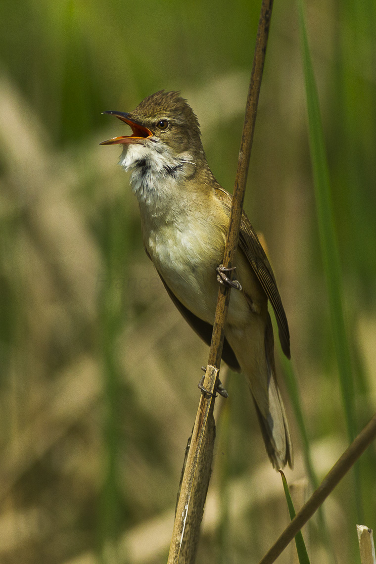 Great Reed Warbler - Hungary_S4E2170